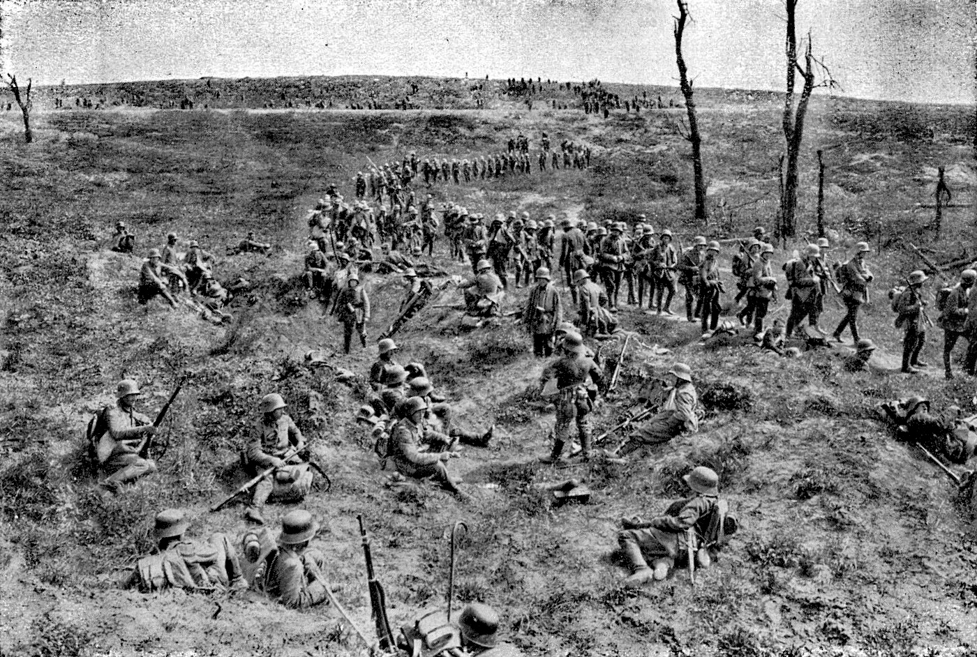 Advancing in the "Spring Offensive" through the Somme wasteland